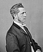 Burt Van Horn, US Representative from Pennsylvania